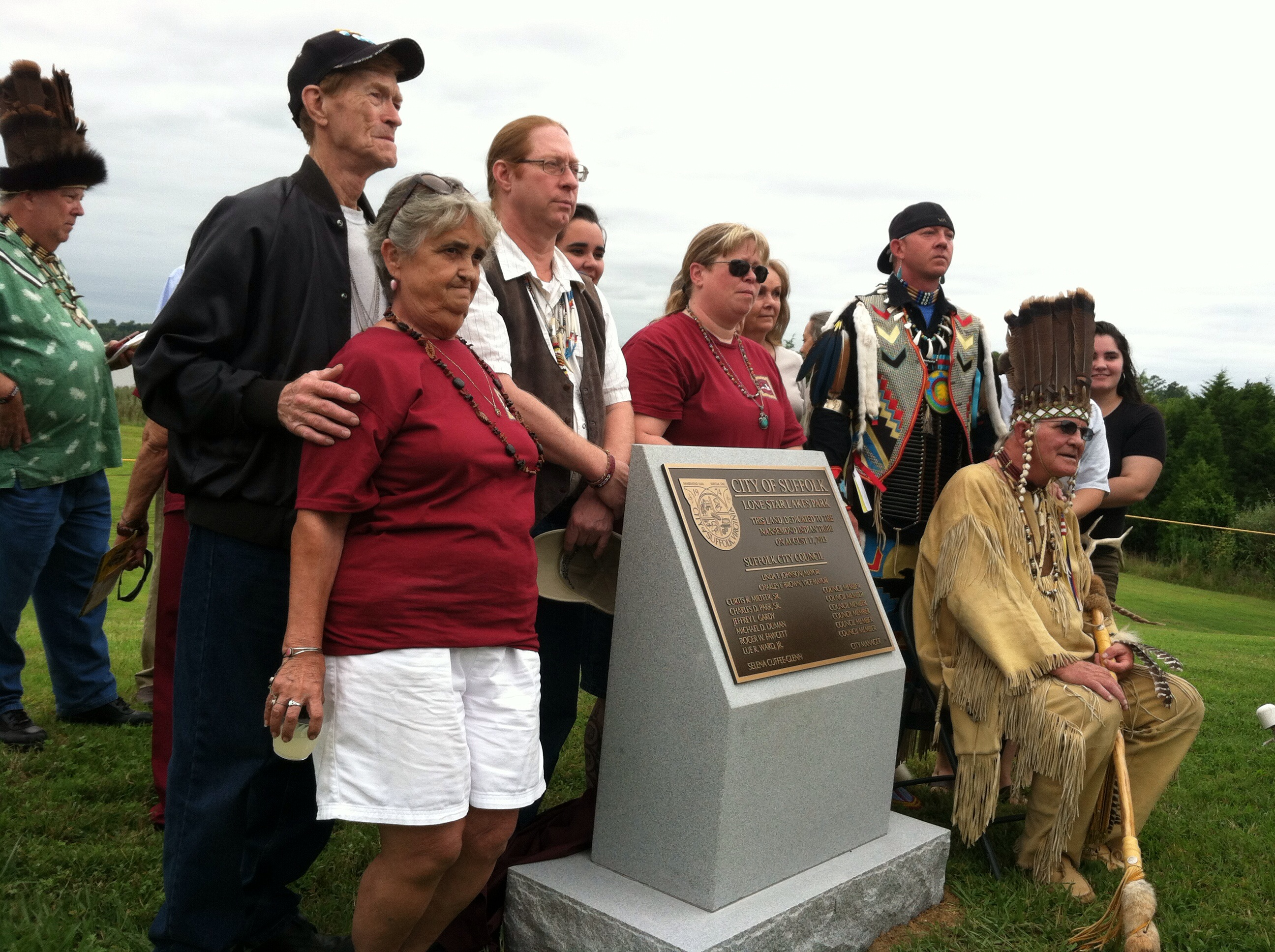 The US Government and the State of Virginia recognize the Nansemond People as a tribe and the Land was deeded back to the tribe.